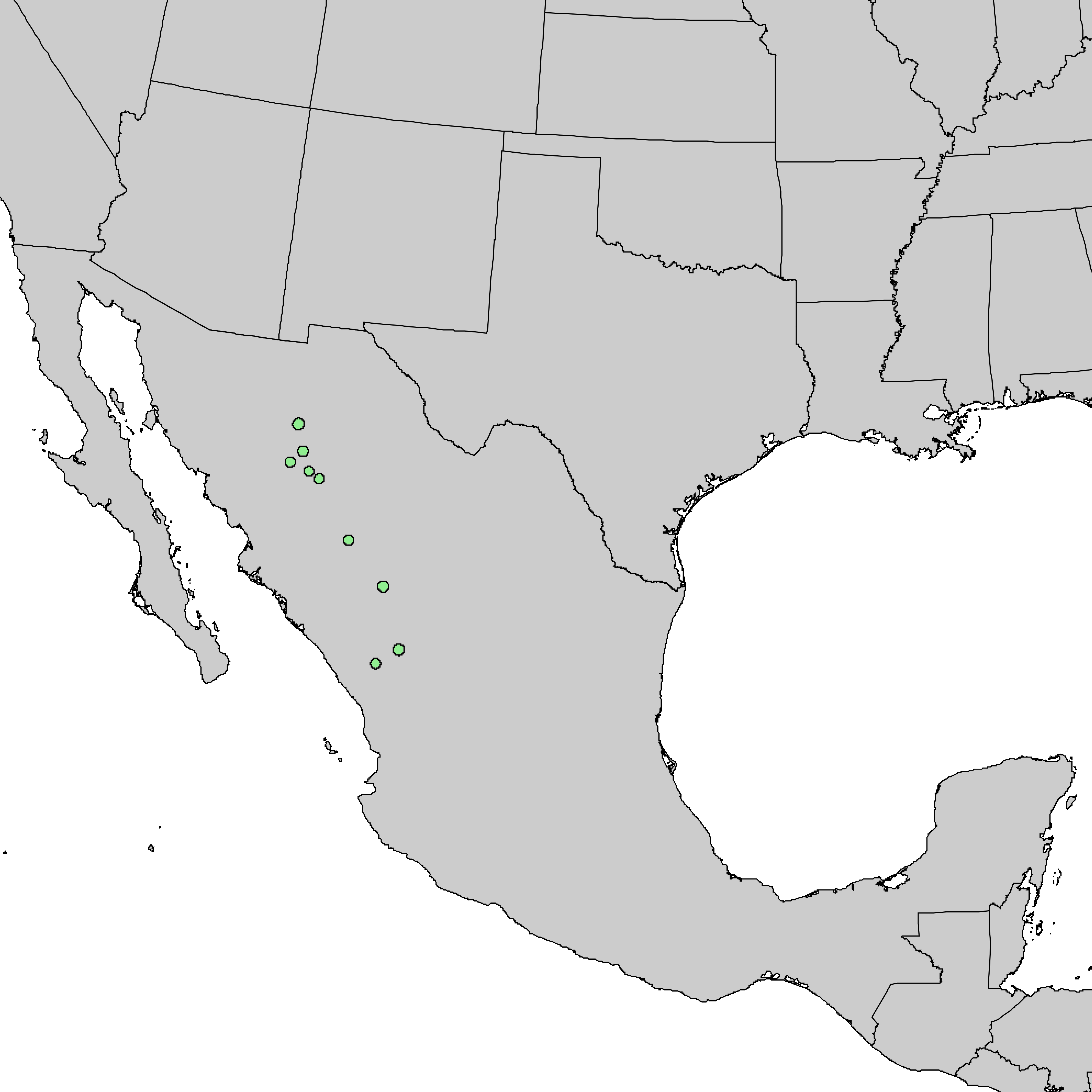 Natural distribution map for Picea chihuahuana